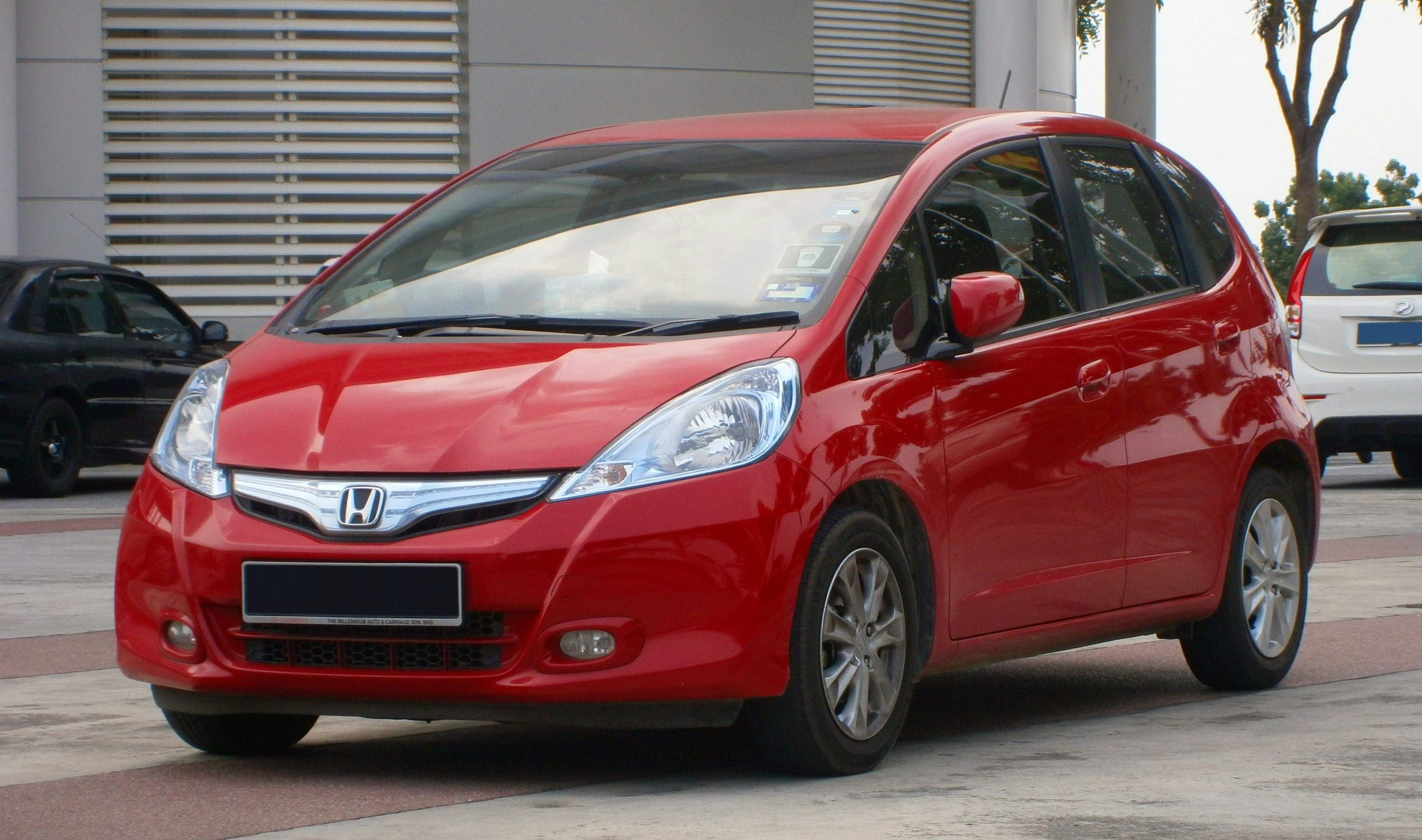 2012 Honda Jazz Hybrid in Cyberjaya, Malaysia.Colour : Milano RedDesigned in Japan , Assembled in Malaysia